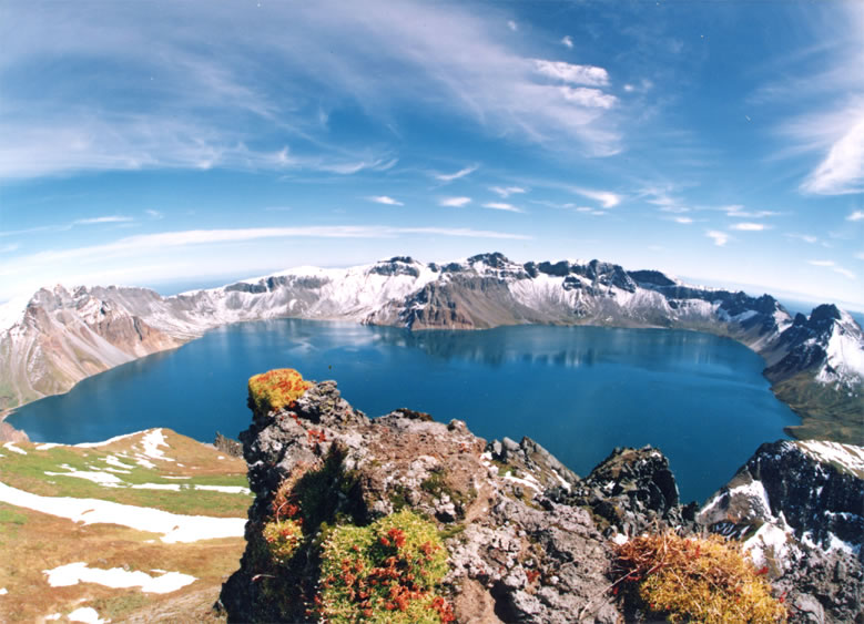 A crater lake at Tianchi (Heaven Lake, 天池) at Baitou (Chinese Changbai Shan) at the border of China and North Korea